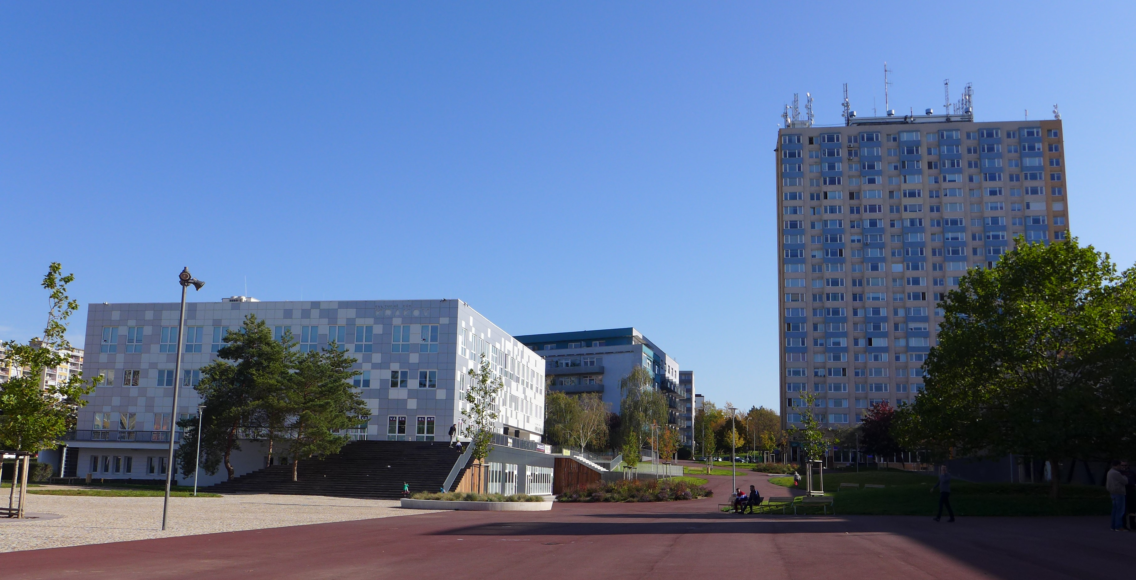 A view of KD Krakov and the SOL house in October 2019.